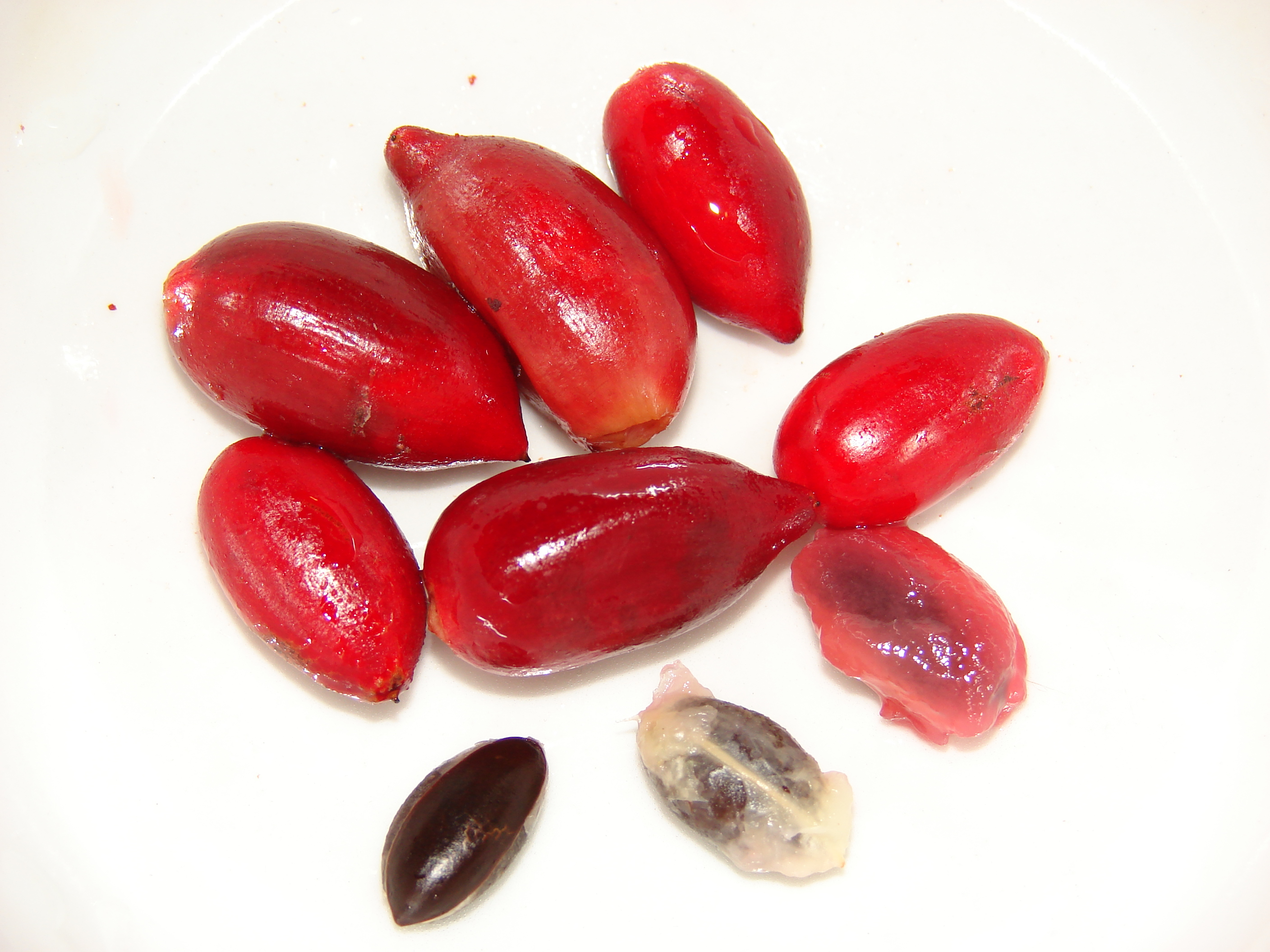 Synsepalum dulcificum (seeds). Location: Maui, Makawao